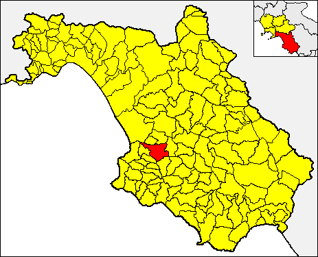 Locator map of the municipality of Cicerale (red) within the Province of Salerno